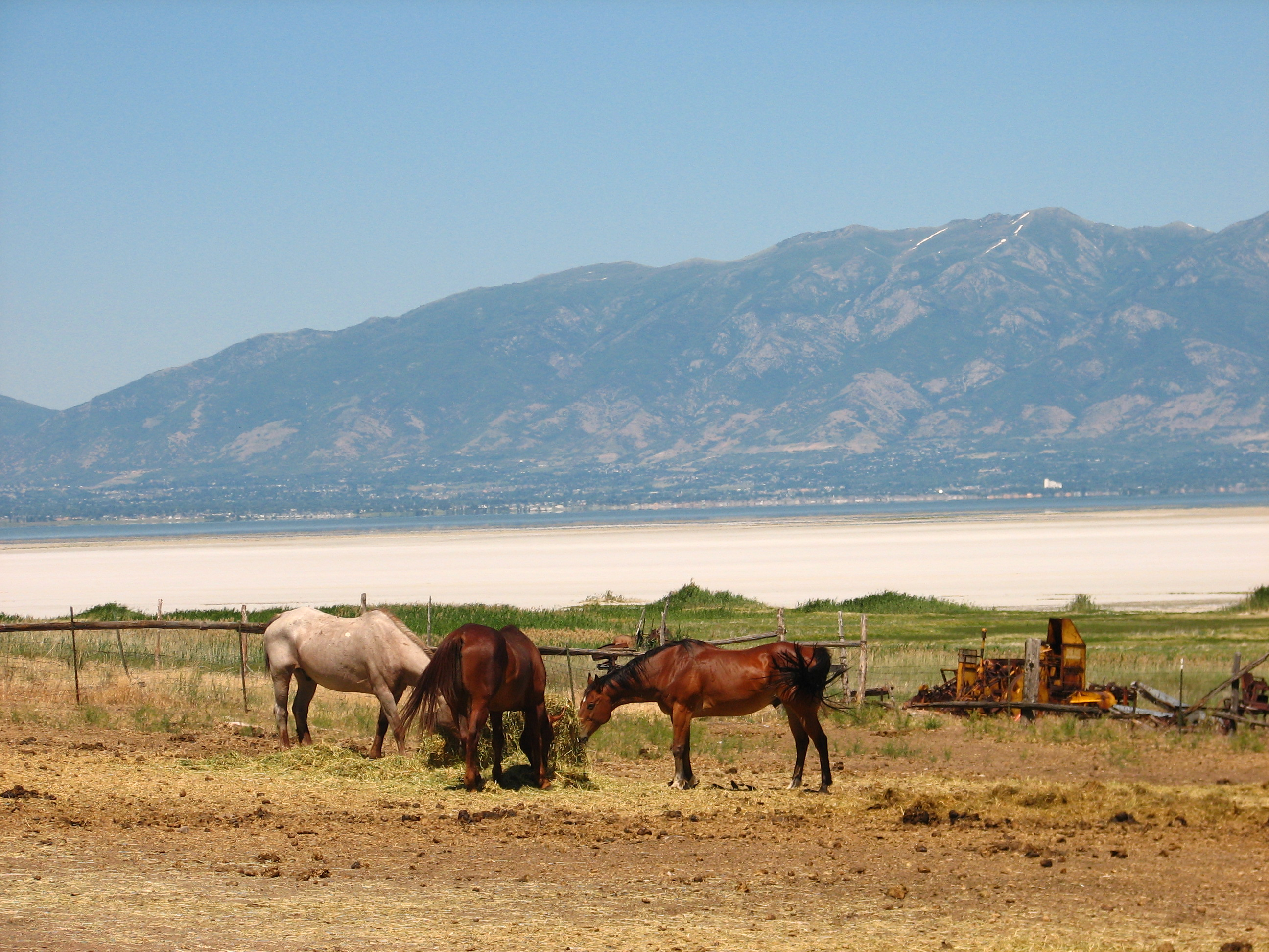 The Fielding Garr Ranch on Antelope Island Author: Juozas Rimas